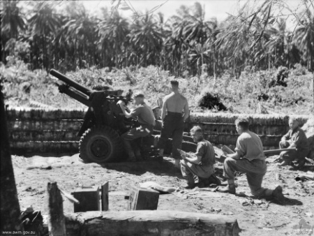 A 25pdr gun from 4th Field Regiment, RAA firing on Japanese positions at Porton in June 1945.